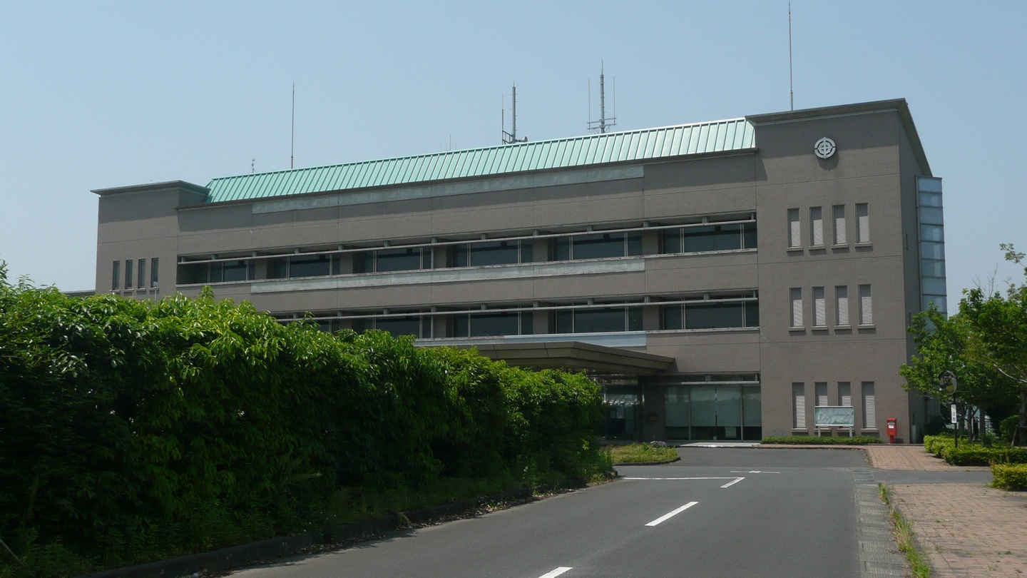 Higashikushira Town Office (Kagoshima, Japan)